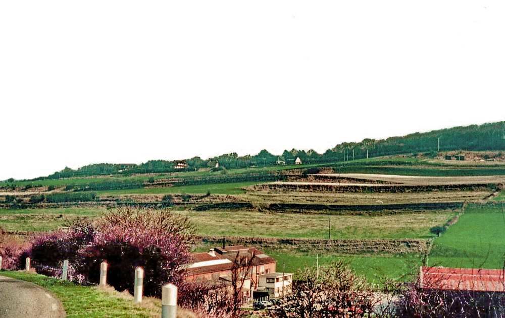 Royons or cultivation lynchets in the pays de Caux, in the Seine-Maritime department (France).